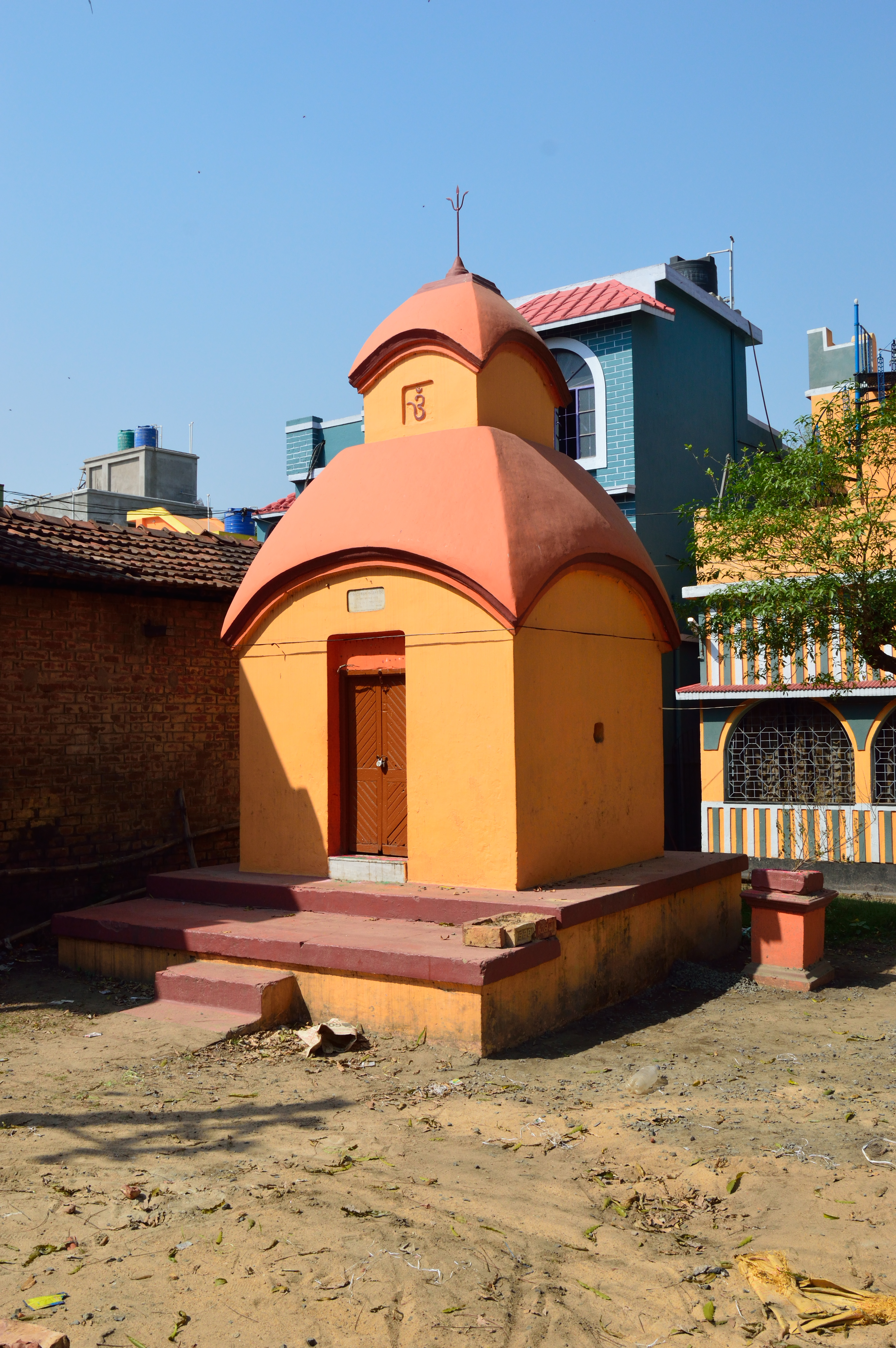 Photographed at Chamrail of Howrah district, West Bengal.